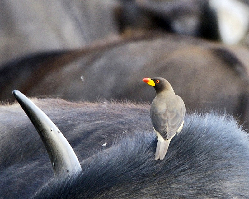 Yellow-billed Oxpecker (Buphagus africanus), Masai Mara, Kenya, August 28, 2008.